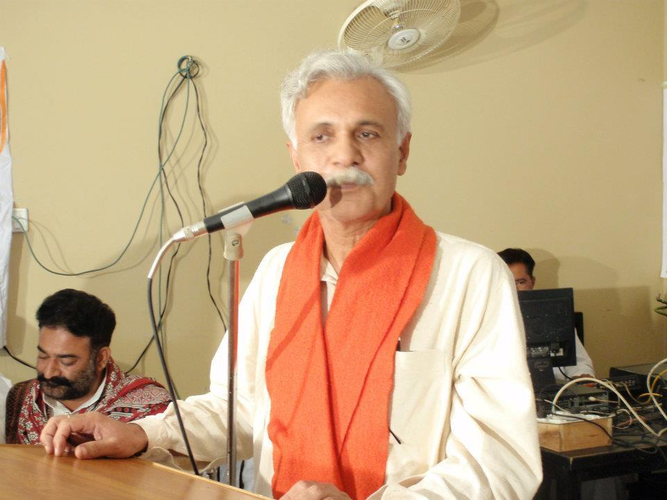 Saraiki Intellectual from Karor Lal esan